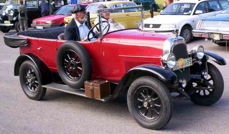 Fiat 501 Torpedo 1926